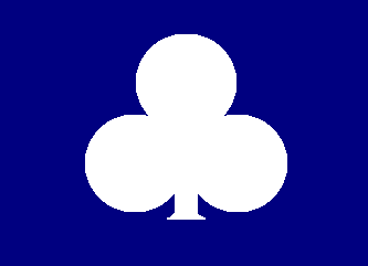 Union Army, I Corps - Army of the Potomac, 2nd Division Badge